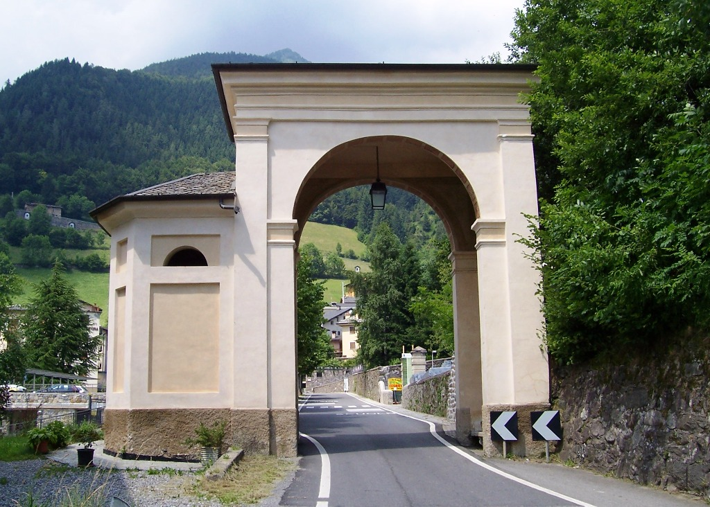 Enter, Vilminore